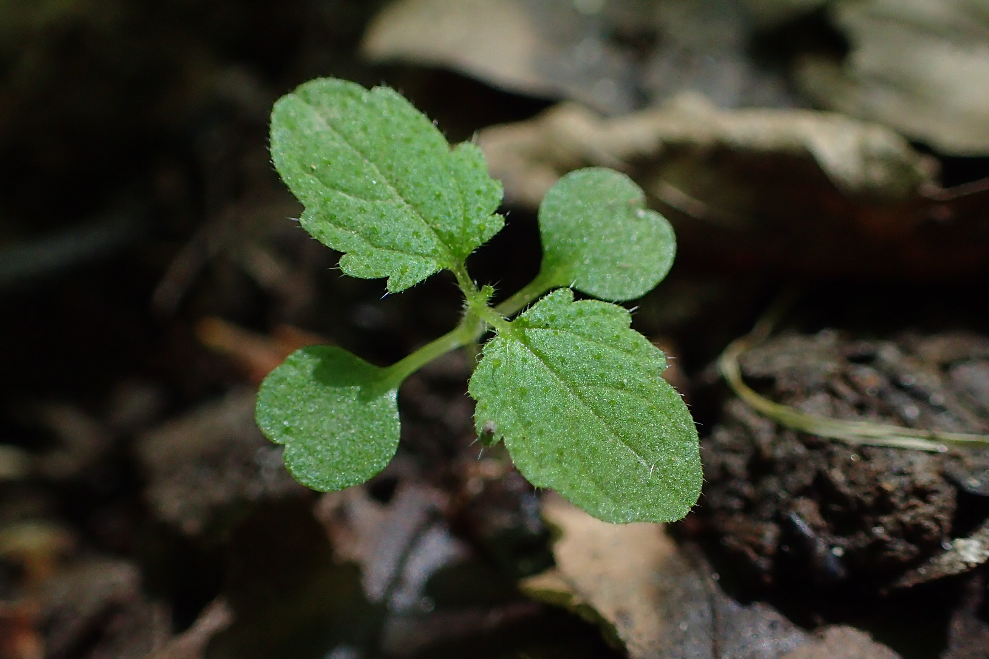 Urtica dioica seedling in Jamno near Koszalin, NW Poland